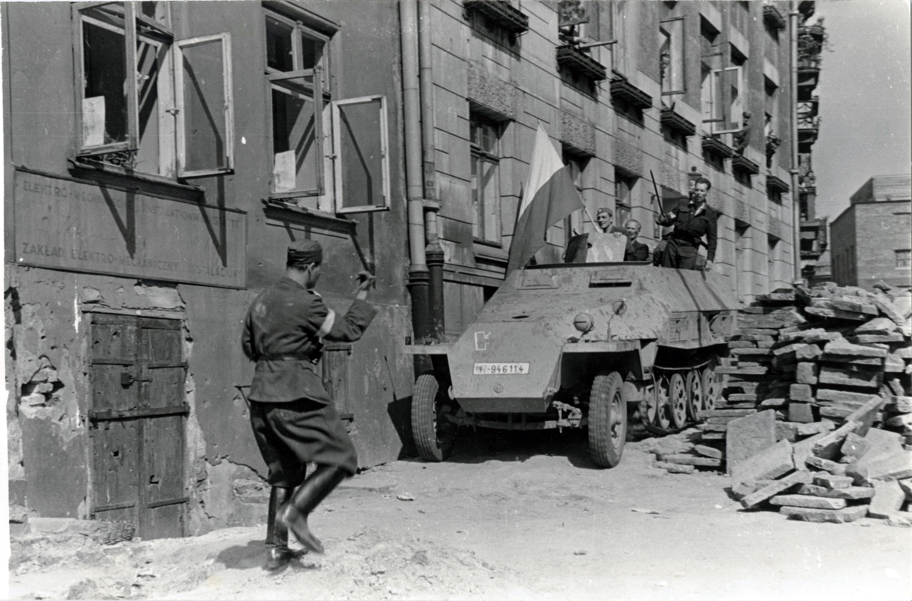 WarsawUprising: German armored fighting vehicle SdKfz 251 captured by the Polish insurgents, from 8-th "Krybar" Regiment, on Na Skarpie Boulevard on August 14, 1944 from 5th SS 'Viking' division. Bringing the transportes into Insurgent controlled territory through barricade at Kopernik Street. The insurgents gave the vehicle name "Gray Wolf" and used it in attack on Warsaw University.